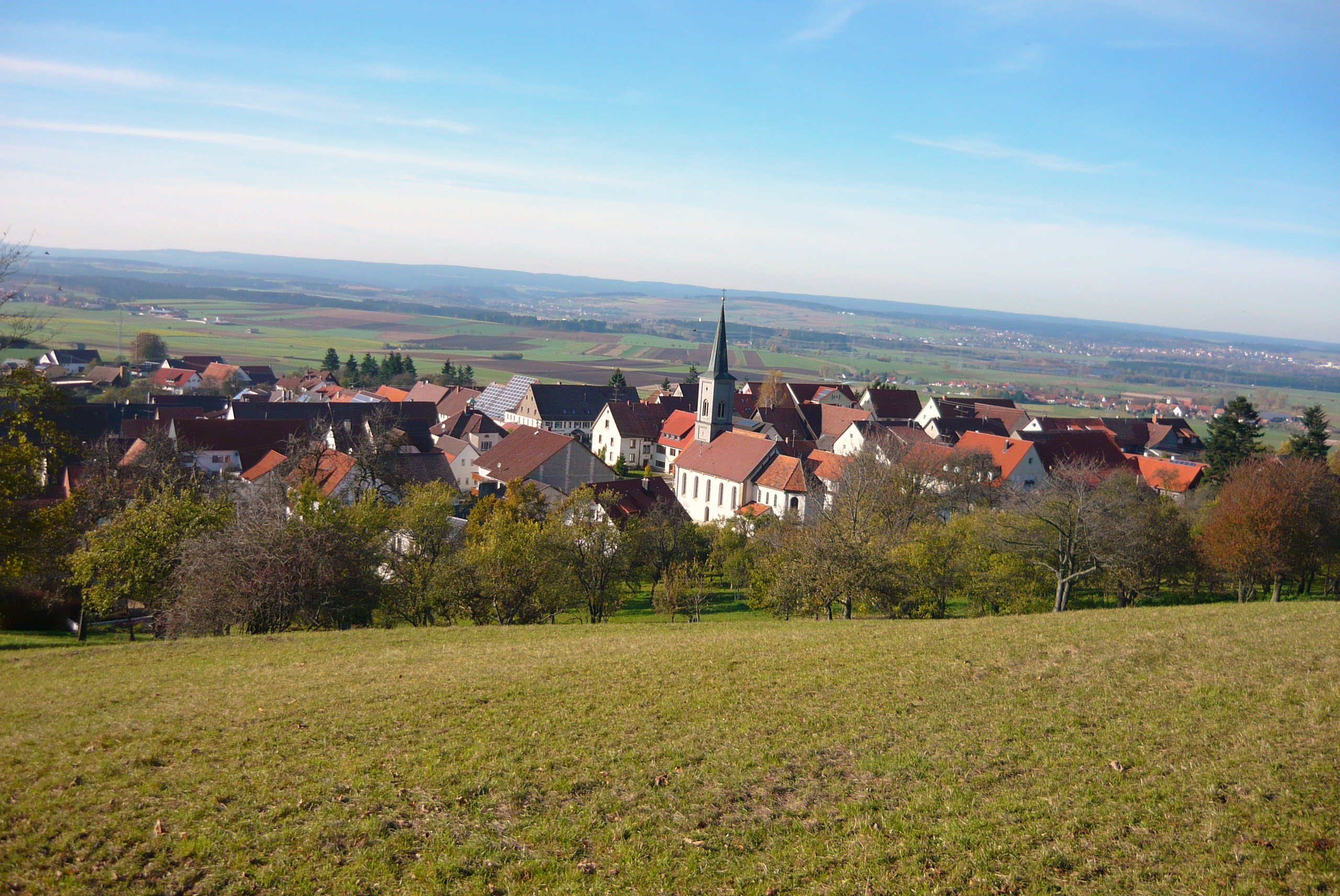 Fürstenberg, little Town near Hüfingen